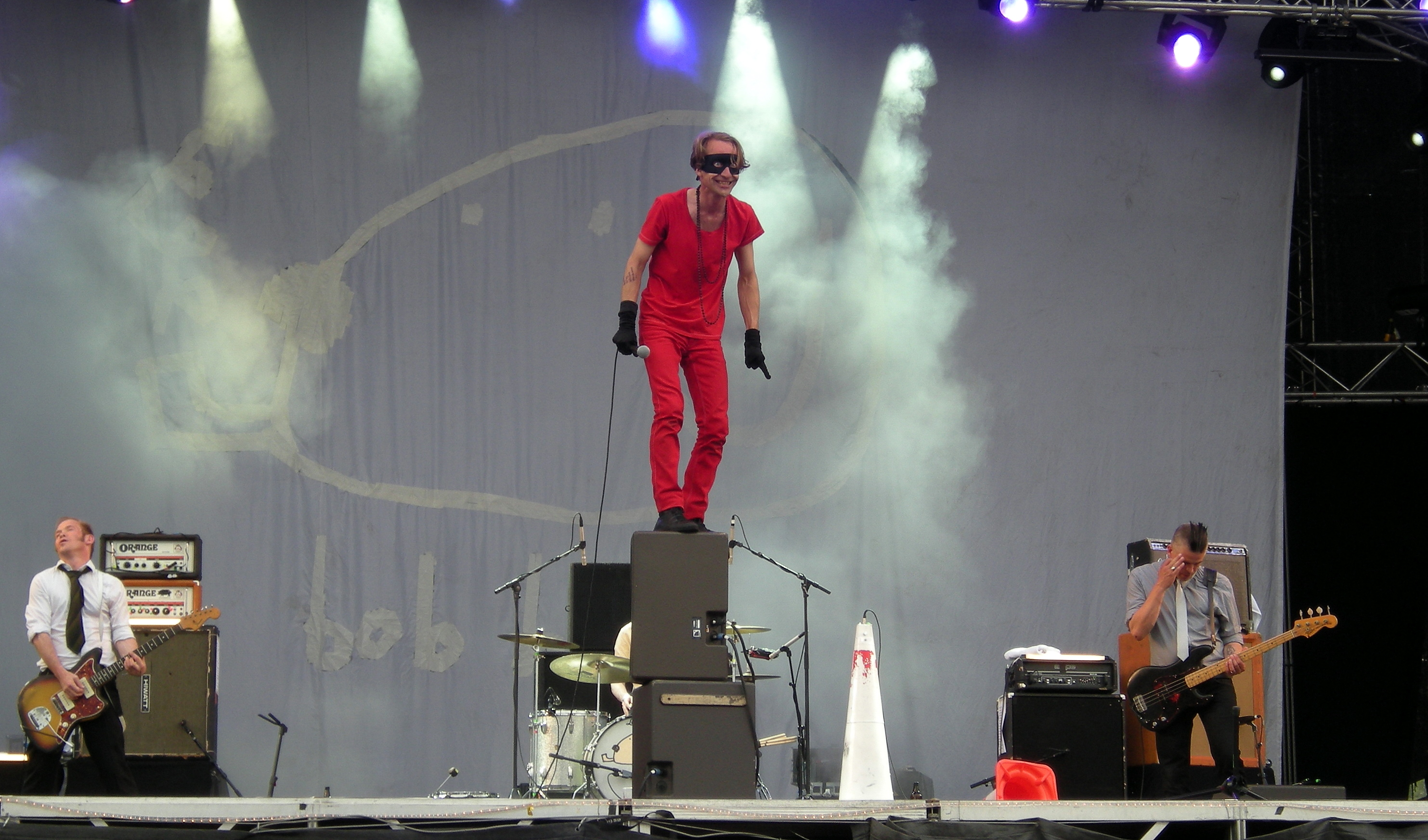 bob hund performing at Peace and Love festival in Borlänge 2011